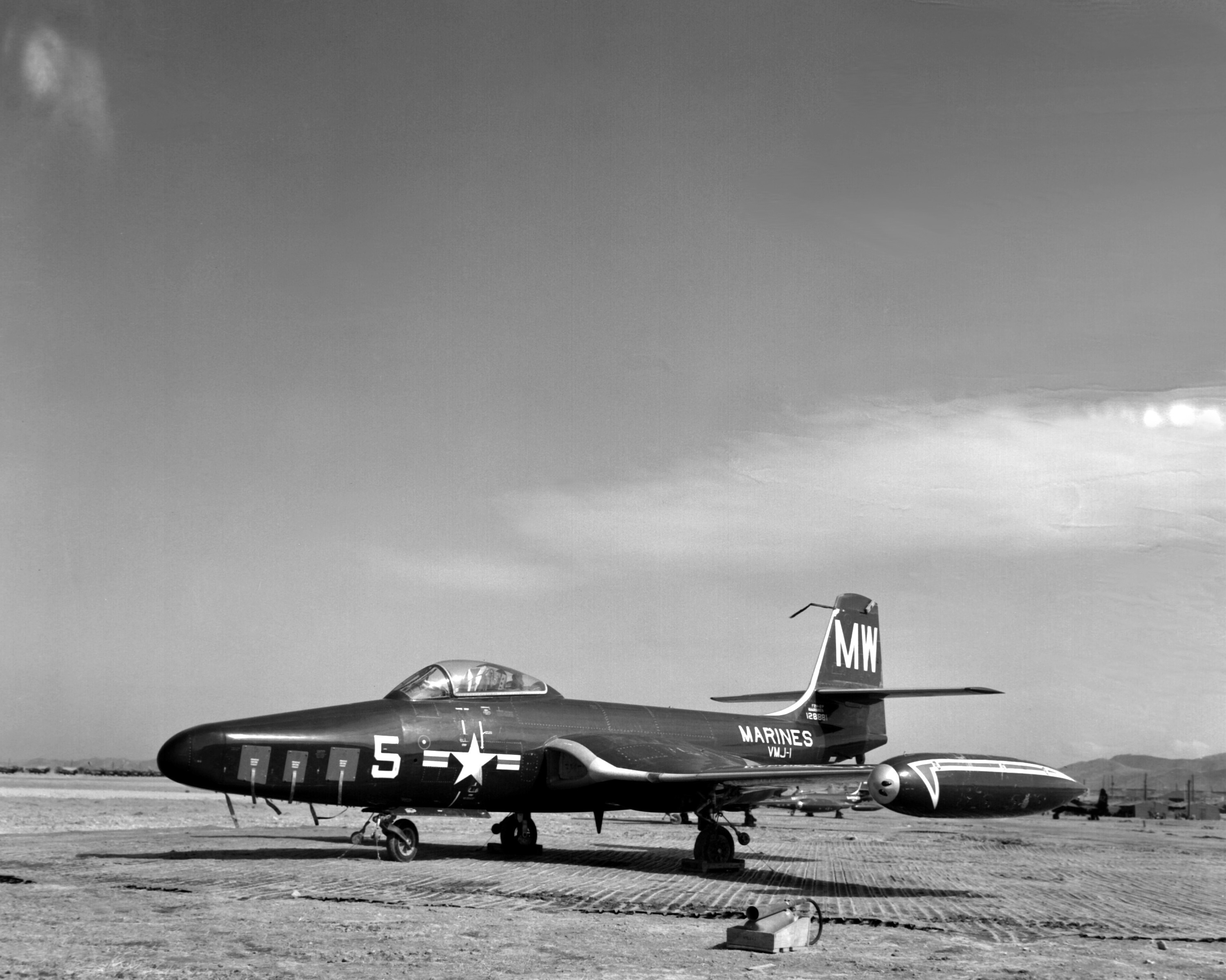 A U.S. Marine Corps McDonnell F2H-2P Banshee photographic aircraft (BuNo 128881) used by Marine photographic squadron VMJ-1, 1st Marine Aircraft Wing, after photographing enemy installations around the Yalu River in Korea on 15 May 1953. Another F2H-2P and a Grumman F7F Tigercat are parked in the background.